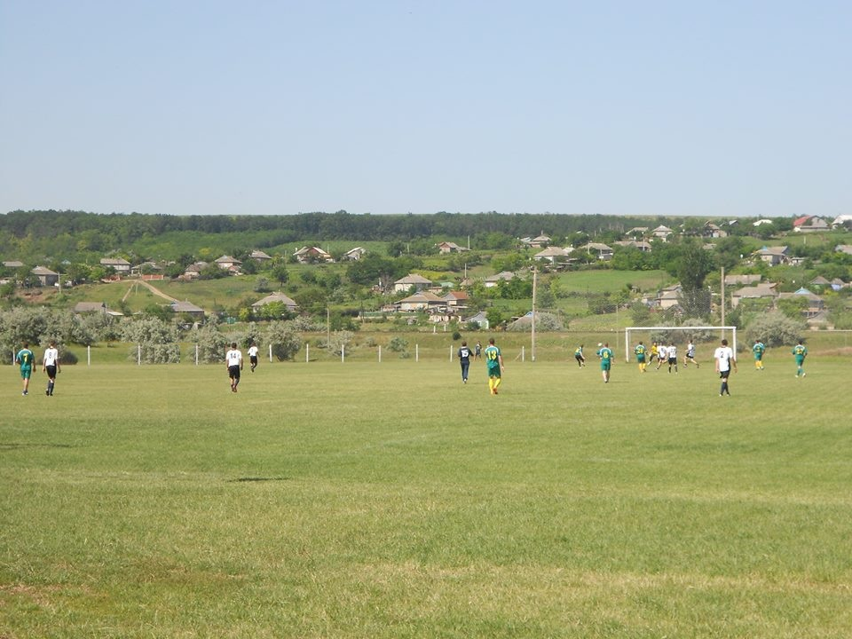 CF Sparta Selemet Stadium